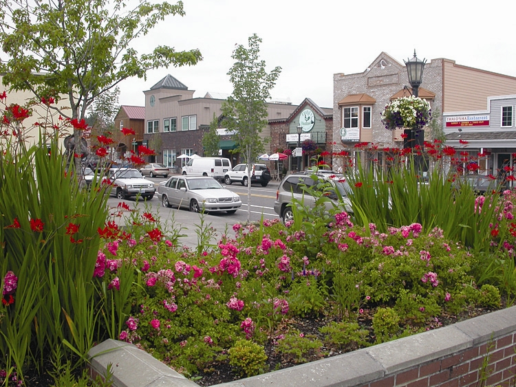 Downtown Troutdale, Oregon